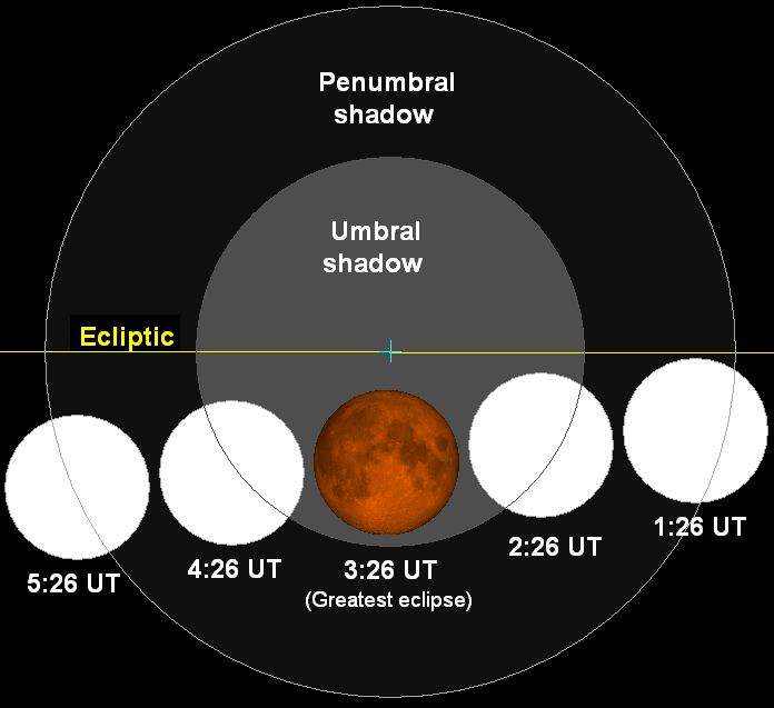 February 2008 lunar eclipse chart of moon's total lunar eclipse path through the earth's shadow.